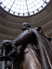 Bronze statue of George Rogers Clark by Hermon Atkins MacNeil Photo by Matthew A. Lynn